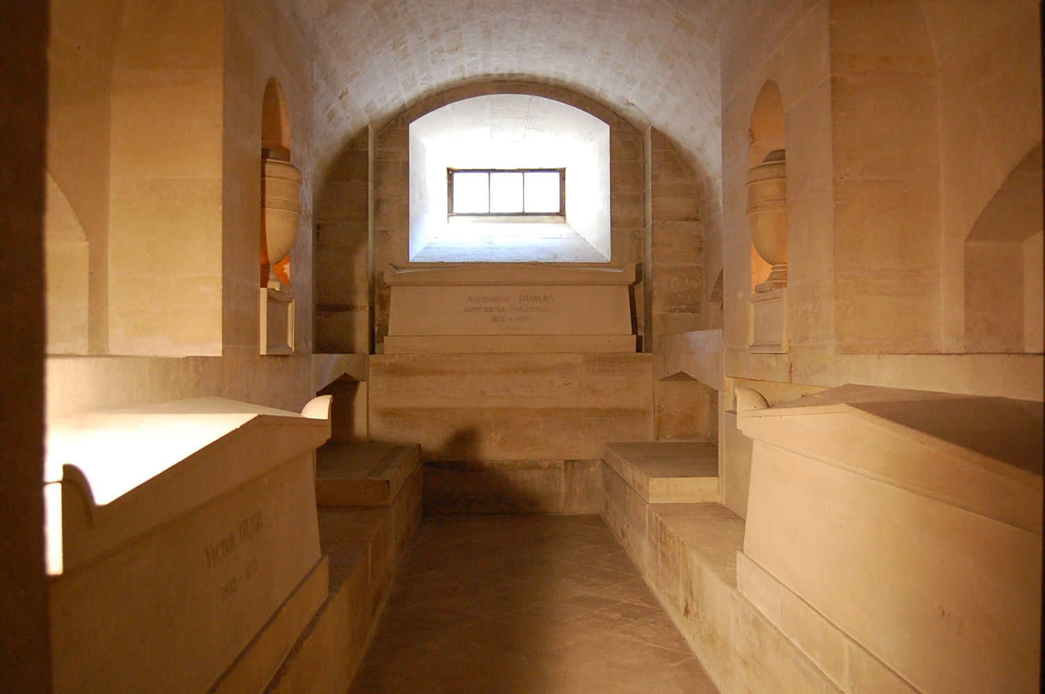 Crypt of Panthéon de Paris